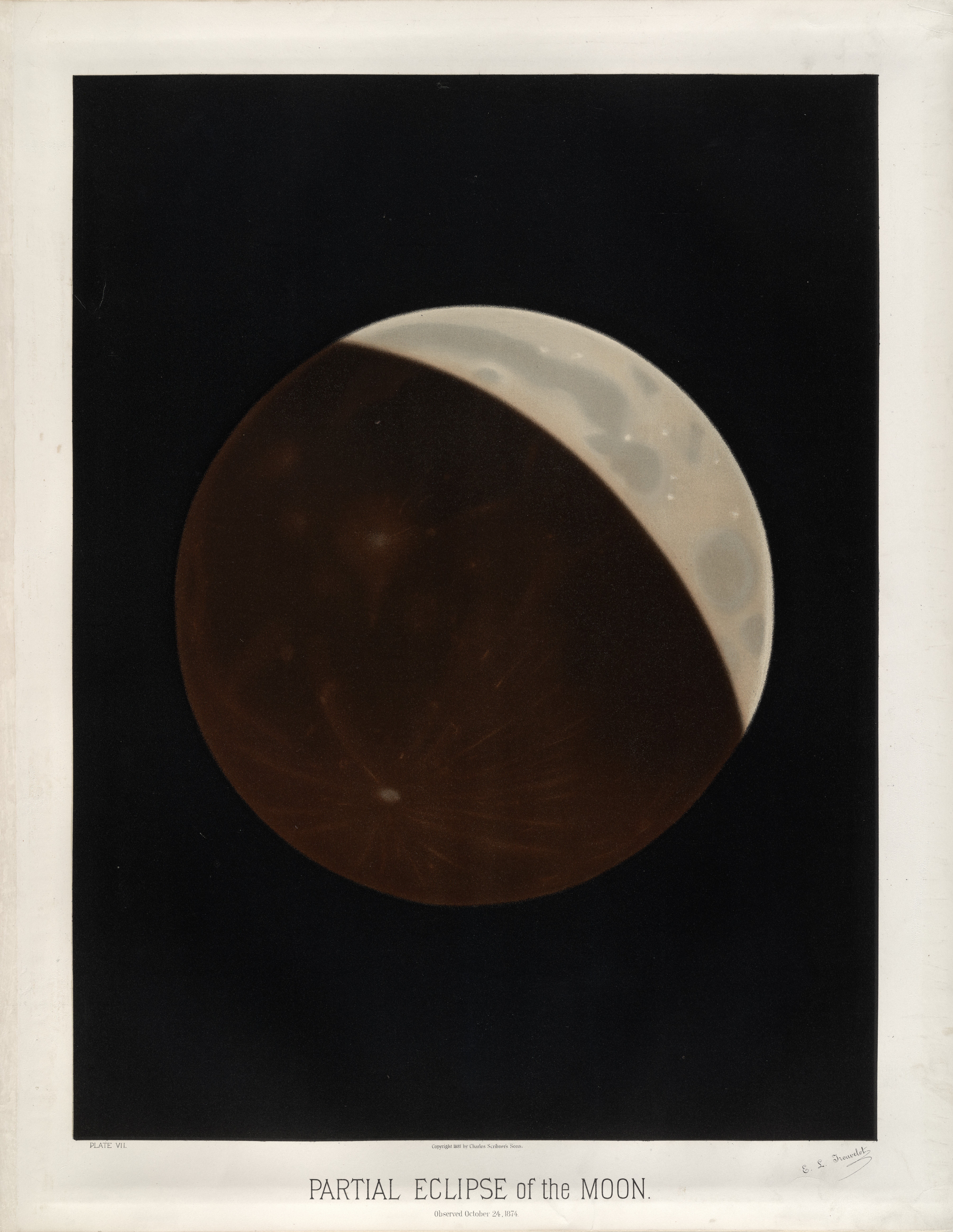 Partial eclipse of the moon. Observed October 24, 1874. (Plate VII of The Trouvelot Astronomical Drawings 1881)